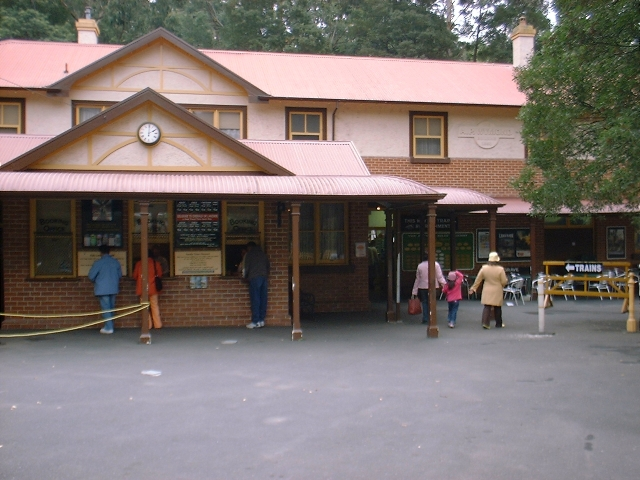 Picture taken myself on 22/4/2006. Anyone can use this image for any reason.